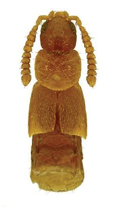 Lectotype of Alisalia austiniana.